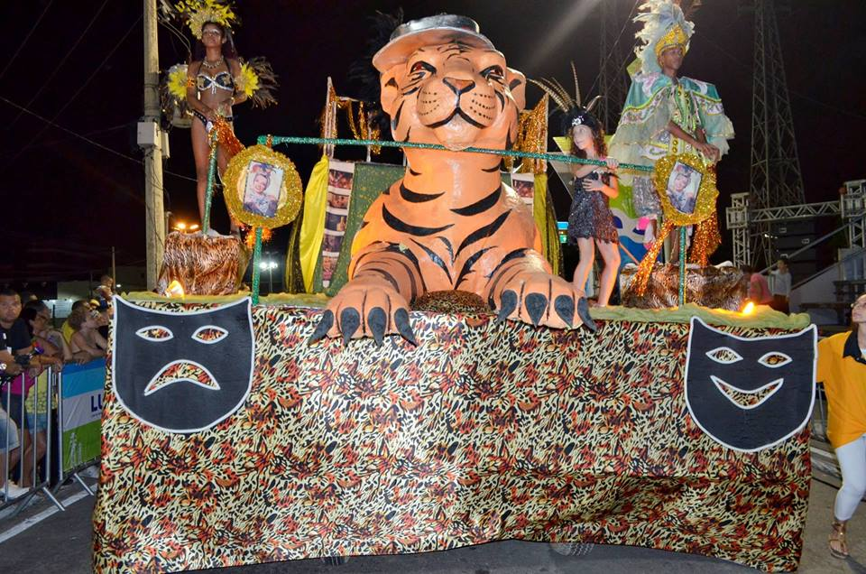 GRES Garras do Tigre